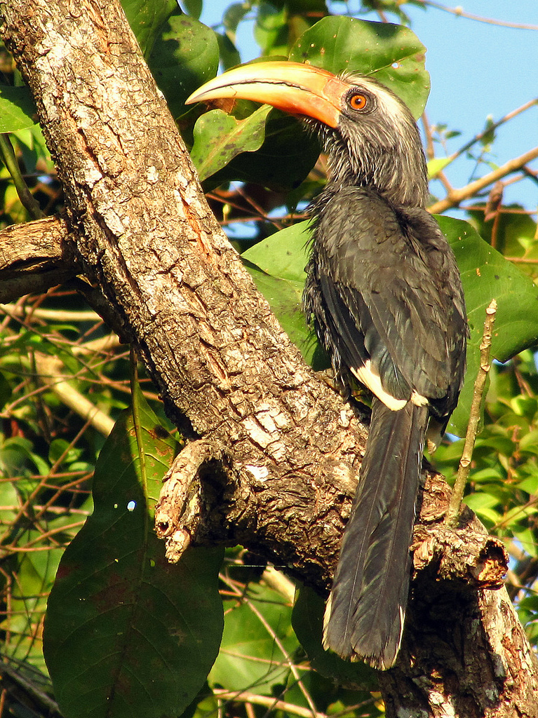 A male Malabar Grey Hornbill in Kerala, India.